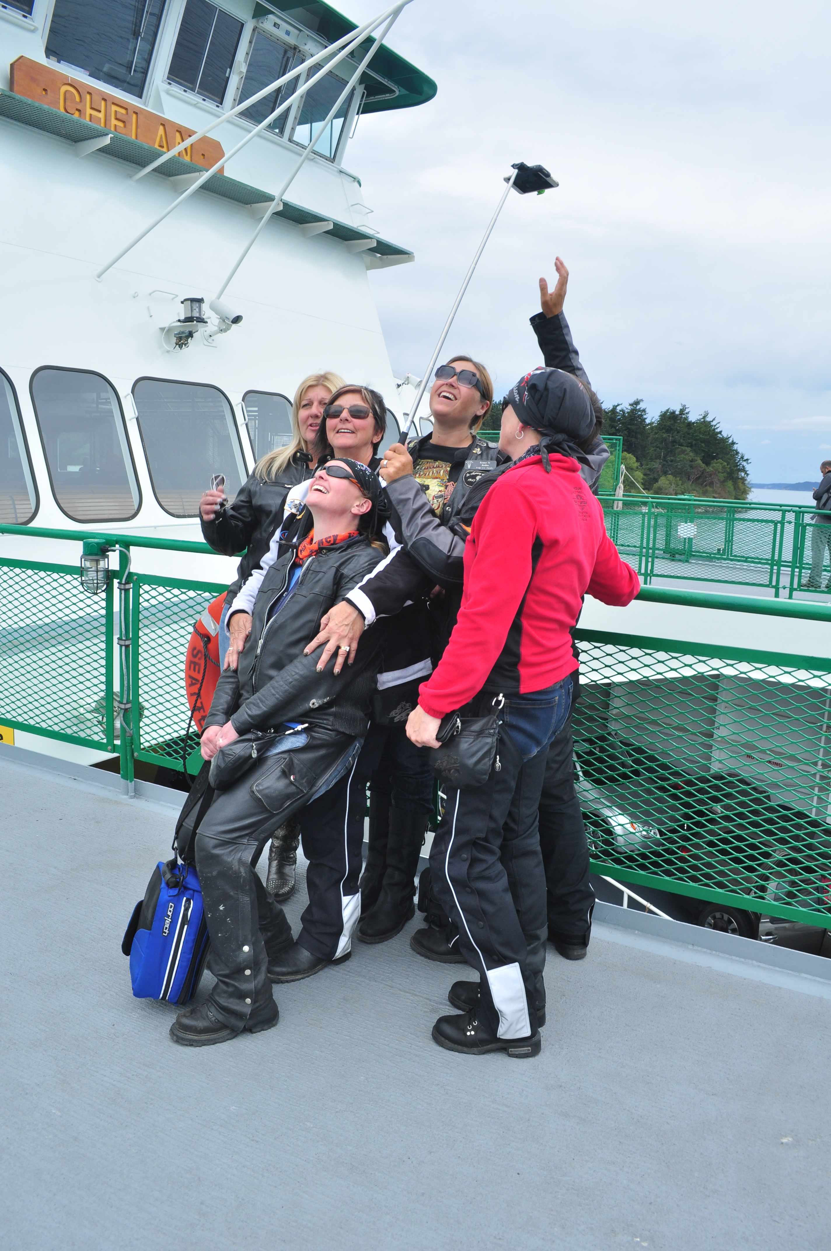 Women motorcyclists aboard M/V Chelan posing for group selfie. Ship's superstructure in background.